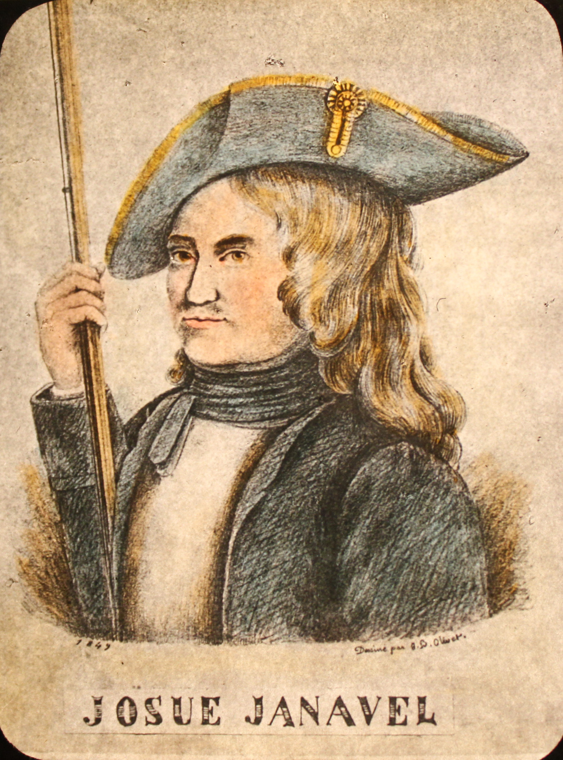 Portrait of Josue Janeval (Joshua Janavel), Waldensian fighter.